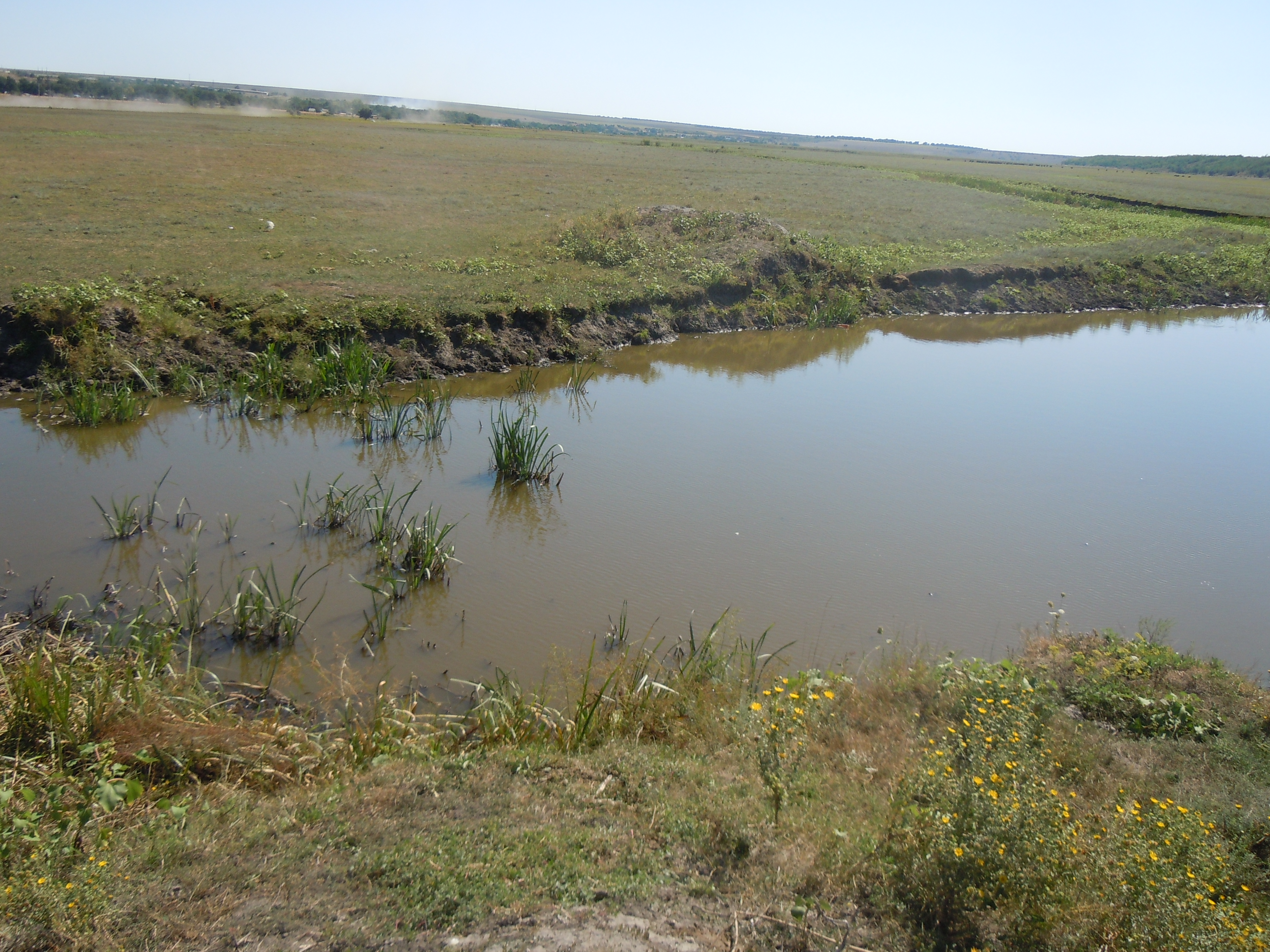 The Tylihul River near the village of Demydove, Berezivka Raion, Odessa Oblast, Ukraine